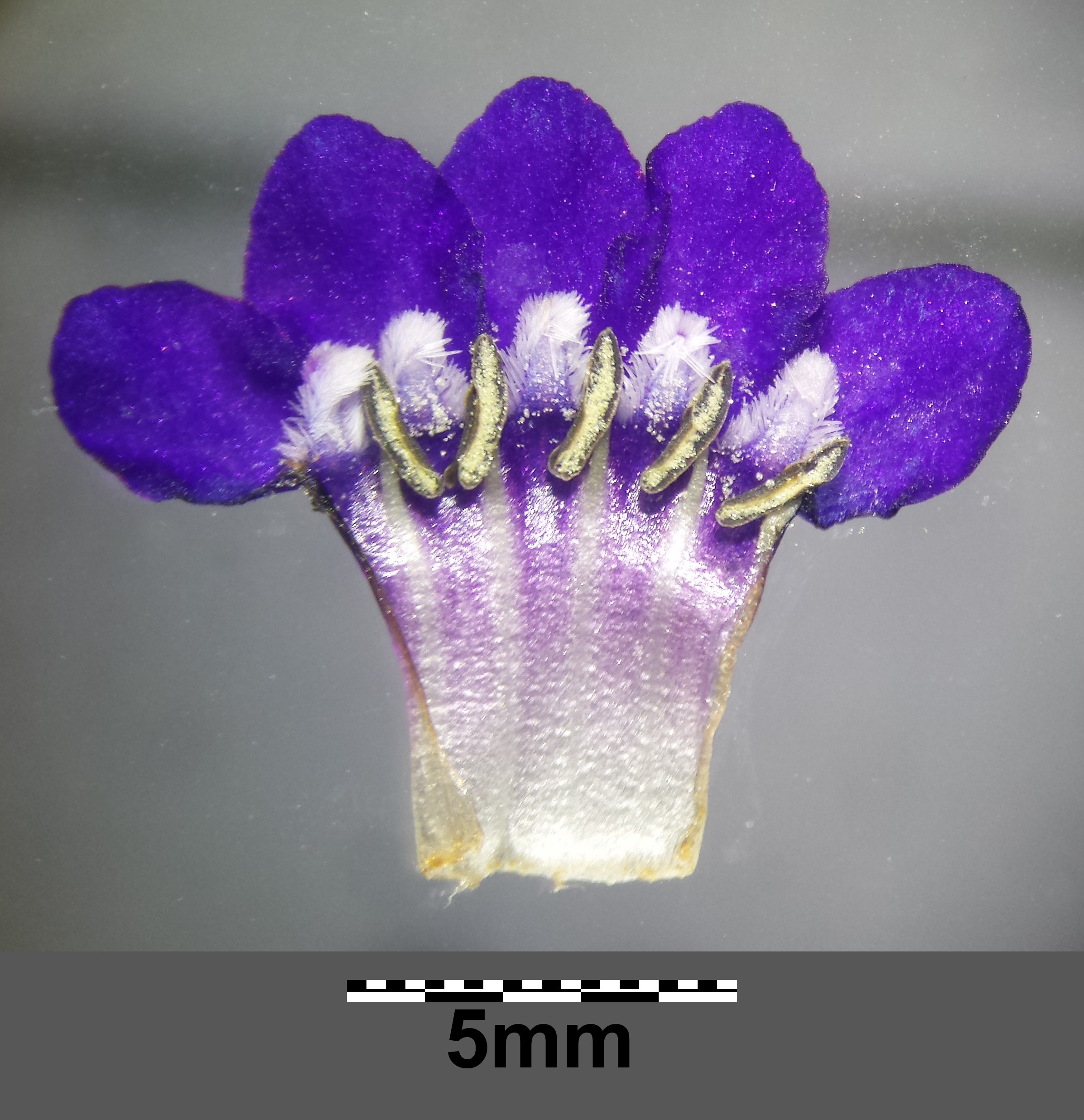 Corolla, inner face Taxonym: Anchusa officinalis ss Fischer et al. EfÖLS 2008 ISBN 978-3-85474-187-9 Location: Neue Donau, Vienna-Floridsdorf - ca. 160 m a.s.l. Habitat: dry meadows